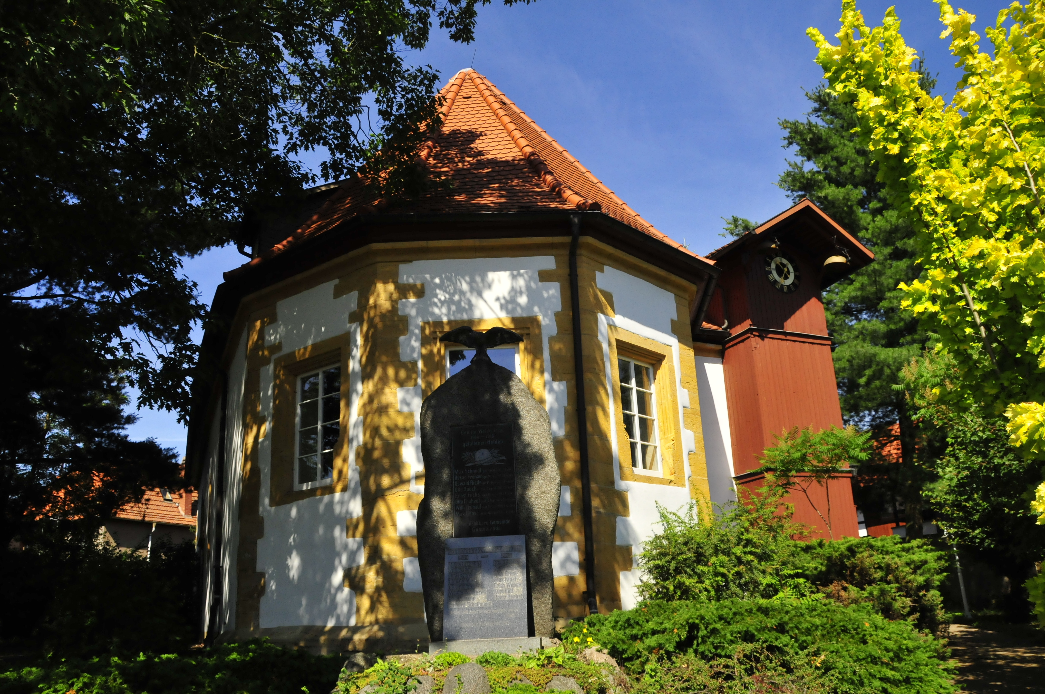 Church in Gospiteroda